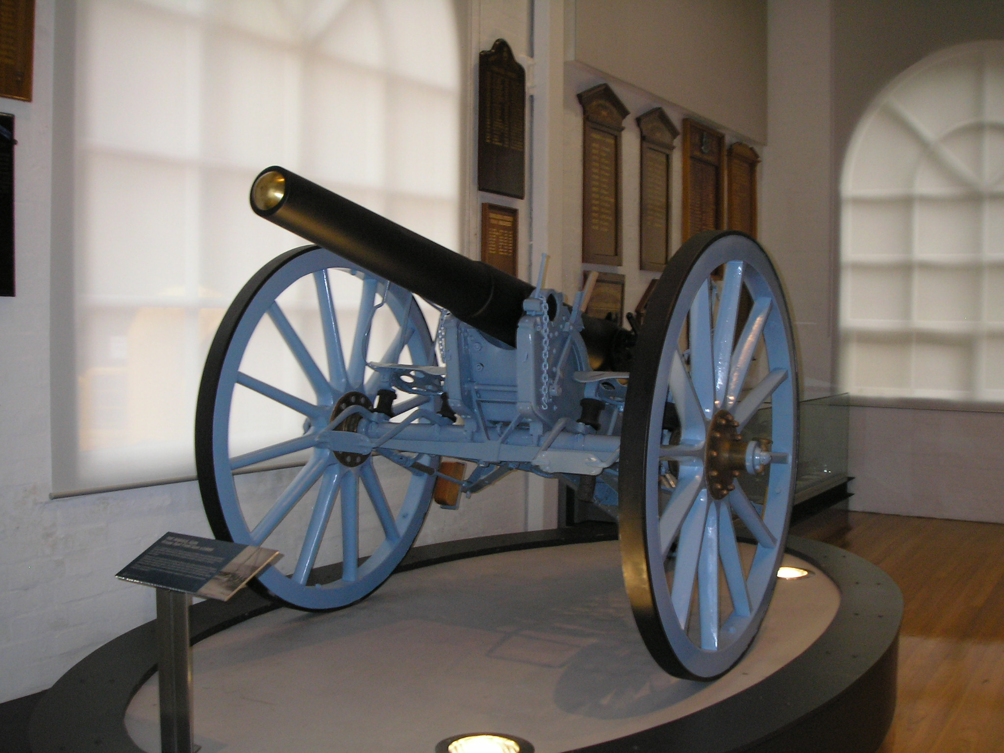 A German artillery gun captured by Australian forces during the occupation of Rabaul in modern Papua New Guinea in 1914. This gun is on display at the Royal Australian Navy Heritage Centre in Sydney.